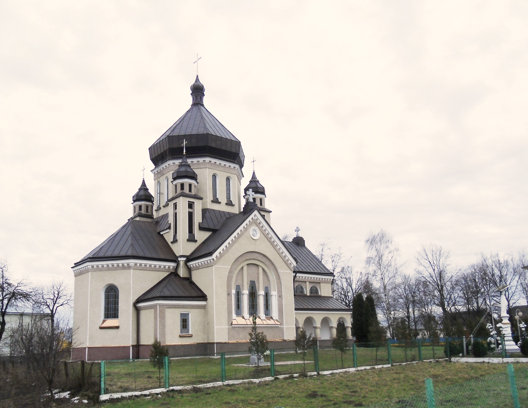 The Greek Catholic church of St. Archangel Michael in the village Zavadiv.